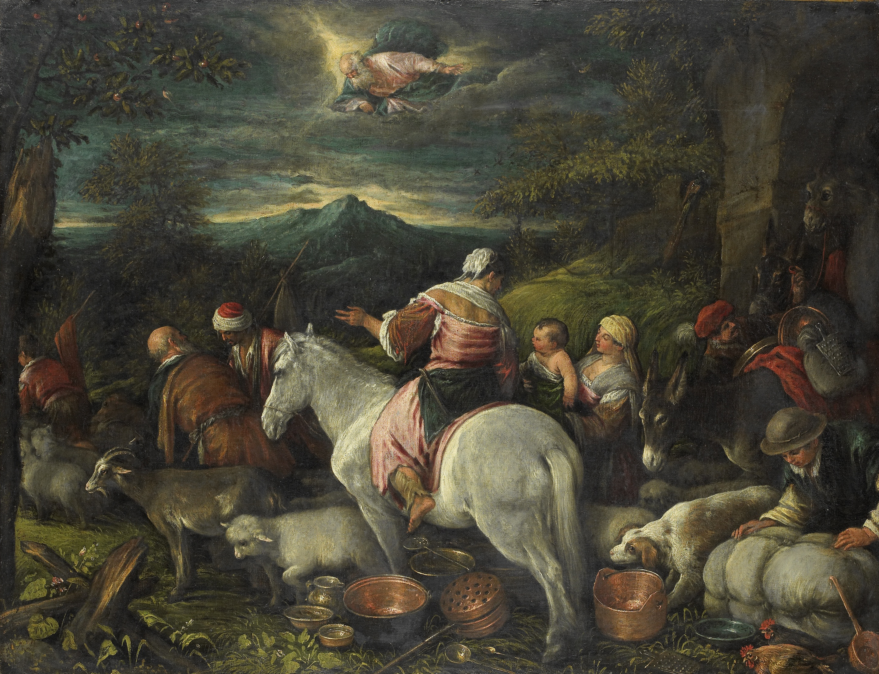 On God's command Abraham leaves Haran (Genesis 13:1-2). Formerly interpreted as the exodus from Egypt. A train of people and animals go through a gate. In the middle a woman rides a white horse in between sheep, a dog, a goat and a donkey. On the foreground all sorts of household goods, pots and pans. From the sky God is looking down.